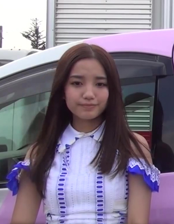 Rena Kato in 2013